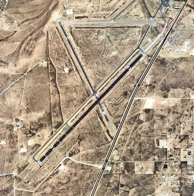 USGS digital orthophoto of Cavern City Air Terminal in New Mexico